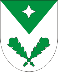 Coat of arms of Vinni vald, Estonia